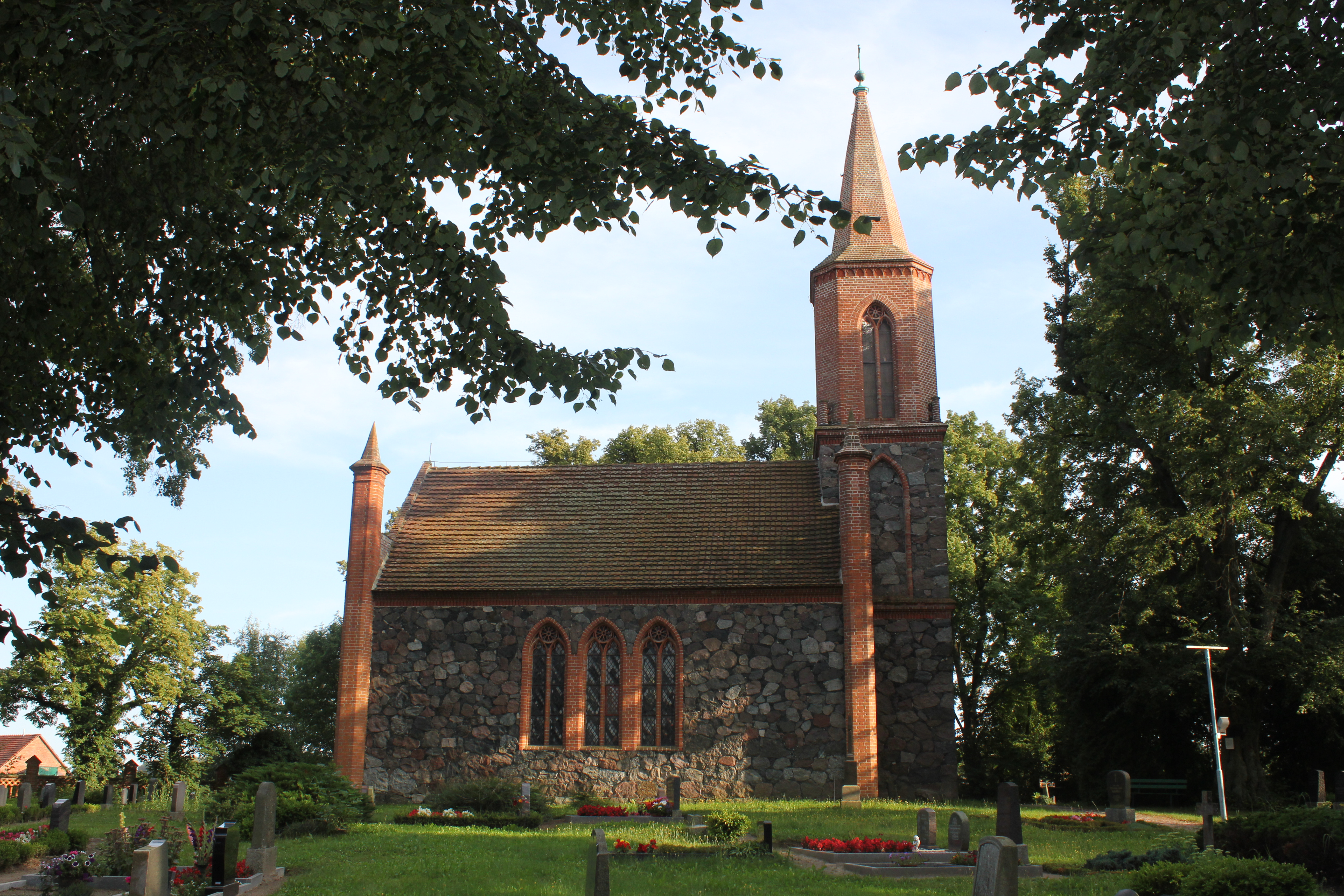 Church in Bredenfelde, disctrict Mecklenburgische Seenplatte, Mecklenburg-Vorpommern, Germany